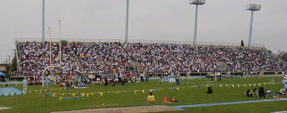 The crowd at the CIF California State Meet at Cerritos College, June 7, 2003